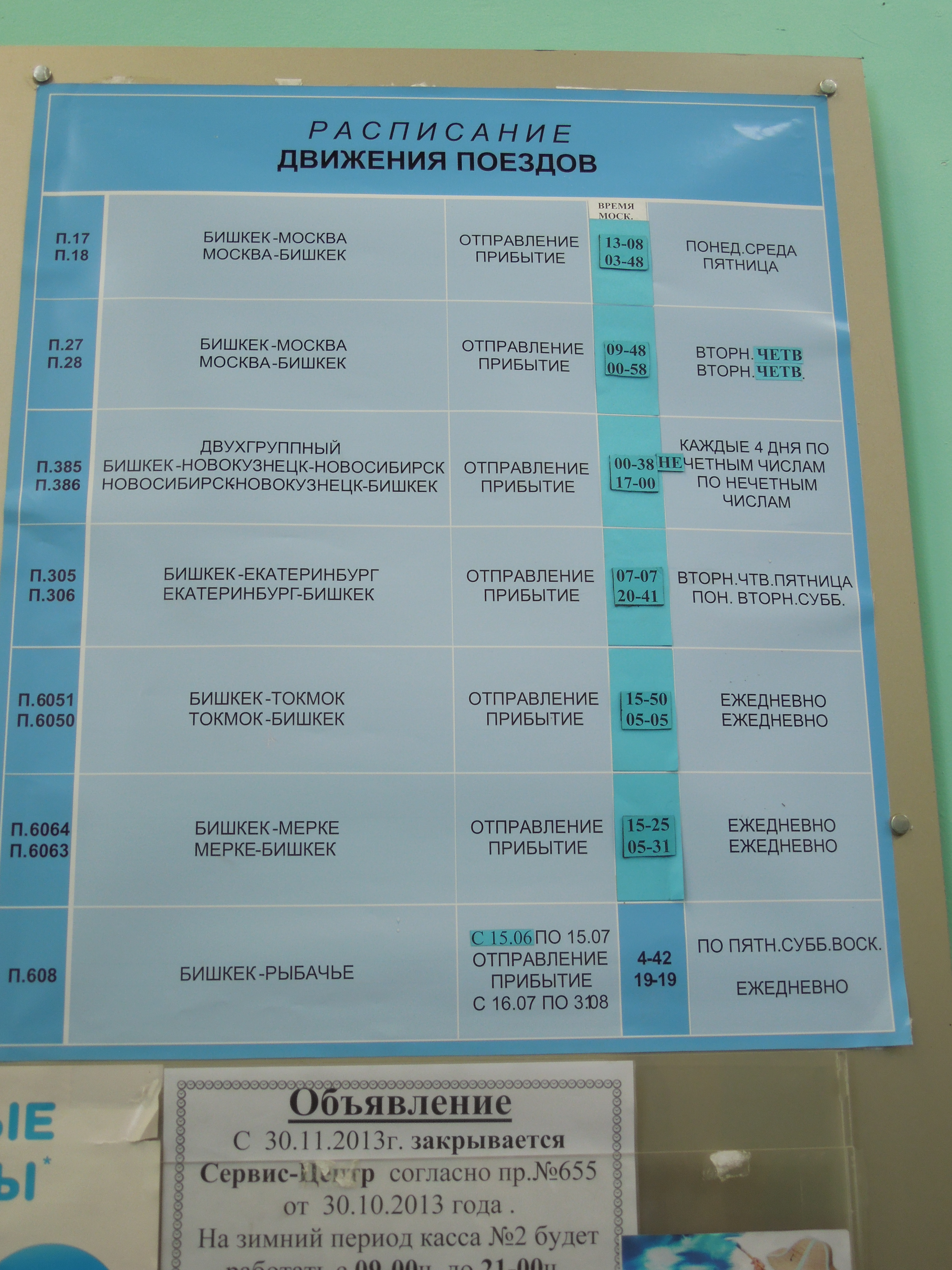 Bishkek railway station, train schedule (Nov. 2013)